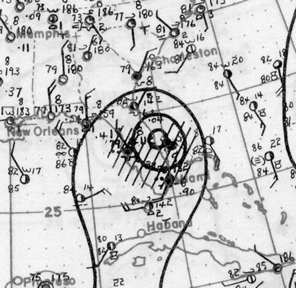 Surface analysis of Hurricane One making landfall on Florida as a Category 2 hurricane.